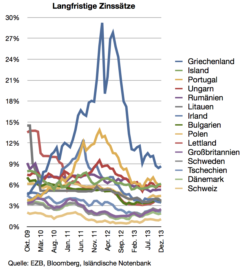 Long-term interest rate statistics of non-Euro countries plus Greece, Portugal and Ireland. (percentages per annum; period averages; secondary market yields of government bonds with maturities of close to ten years)